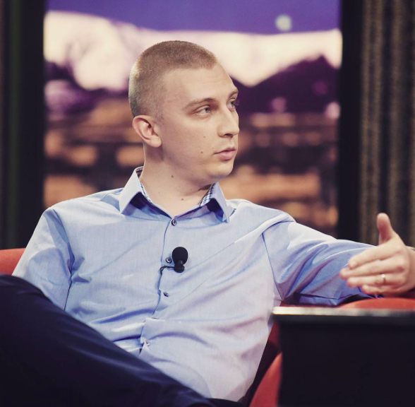 Czech entrepreneur Lukáš Hakoš